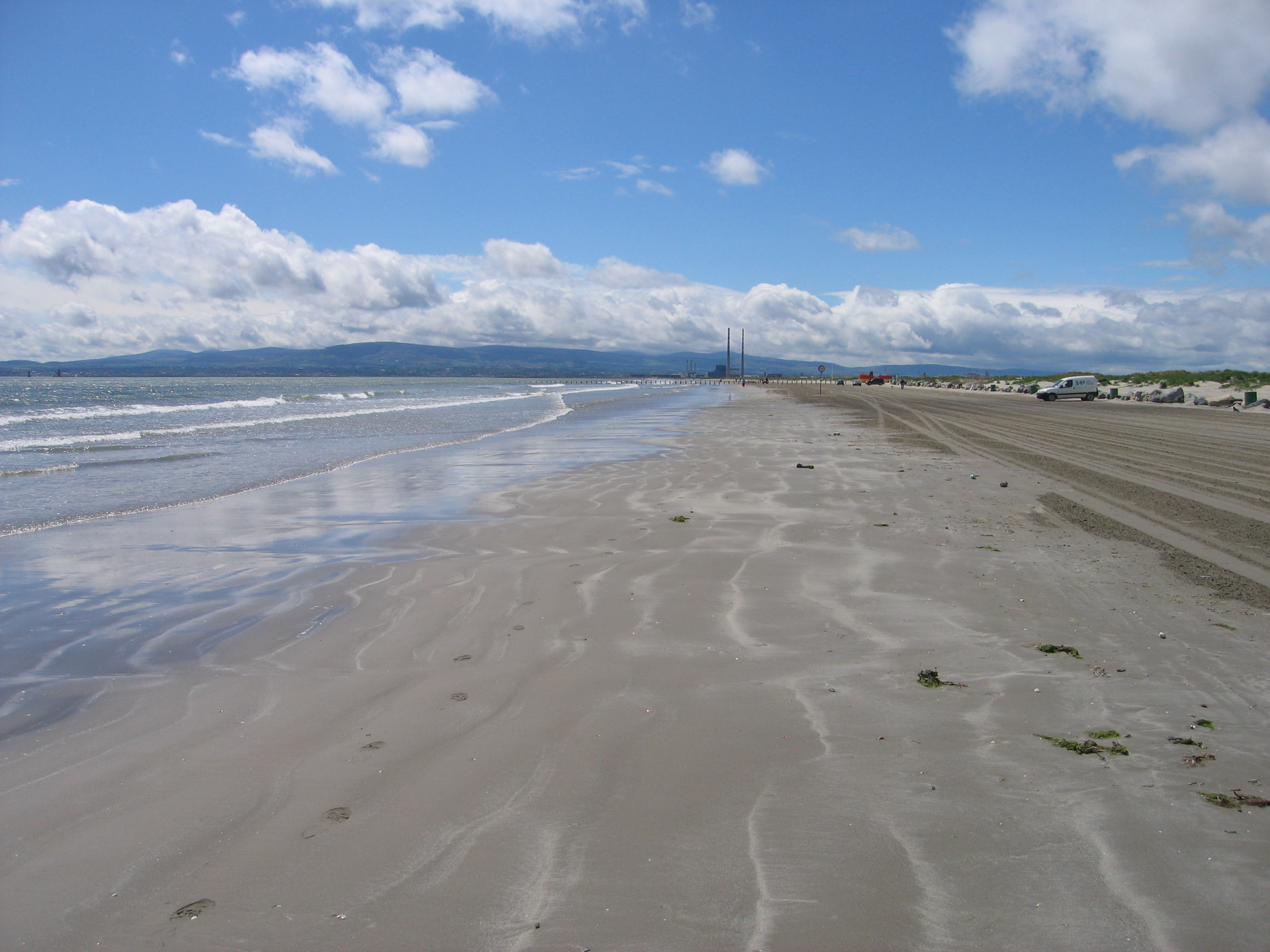 Dollymount Strand looking south towards the Dublin Mountains (Sarah777 21:38, 27 January 2007 (UTC))